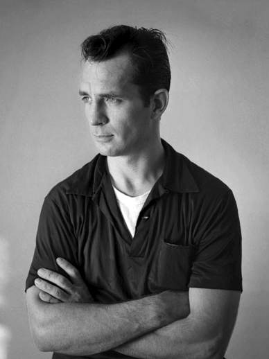 Jack Kerouac by photographer Tom Palumbo.